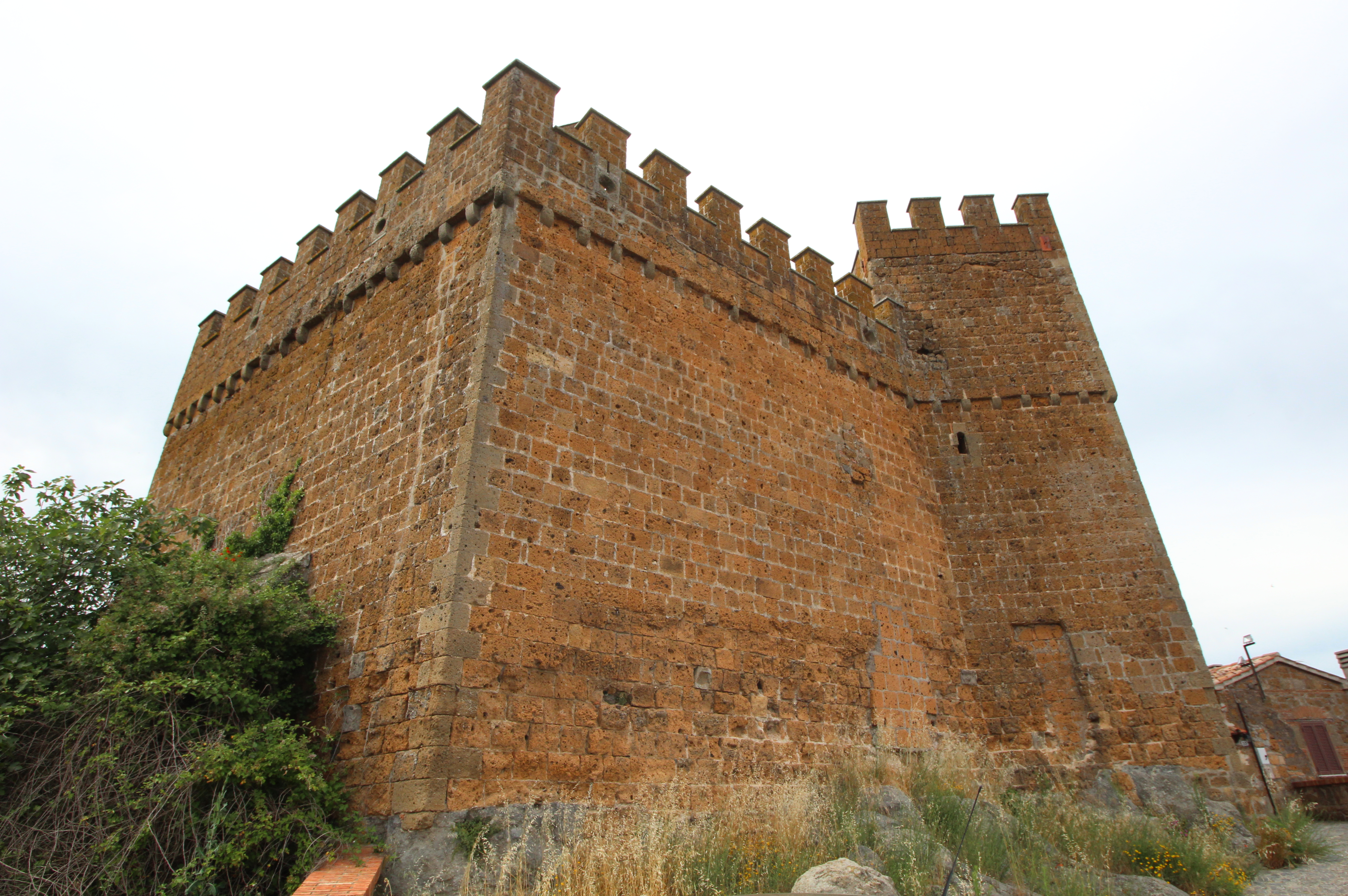 Castle Castello di Proceno, Proceno, Province of Viterbo, Lazio, Italy